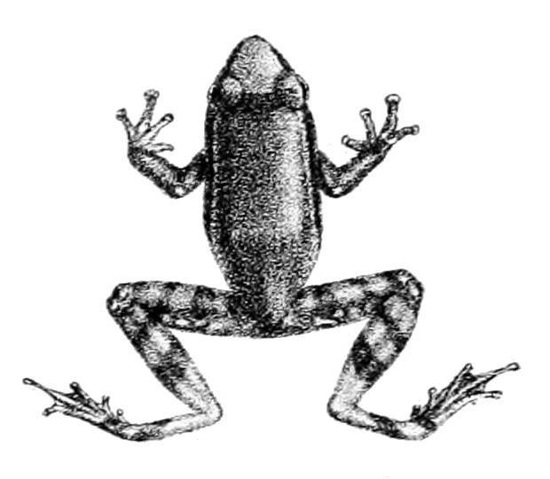 Ixalus hypomelas = Pseudophilautus hypomelas - upper view